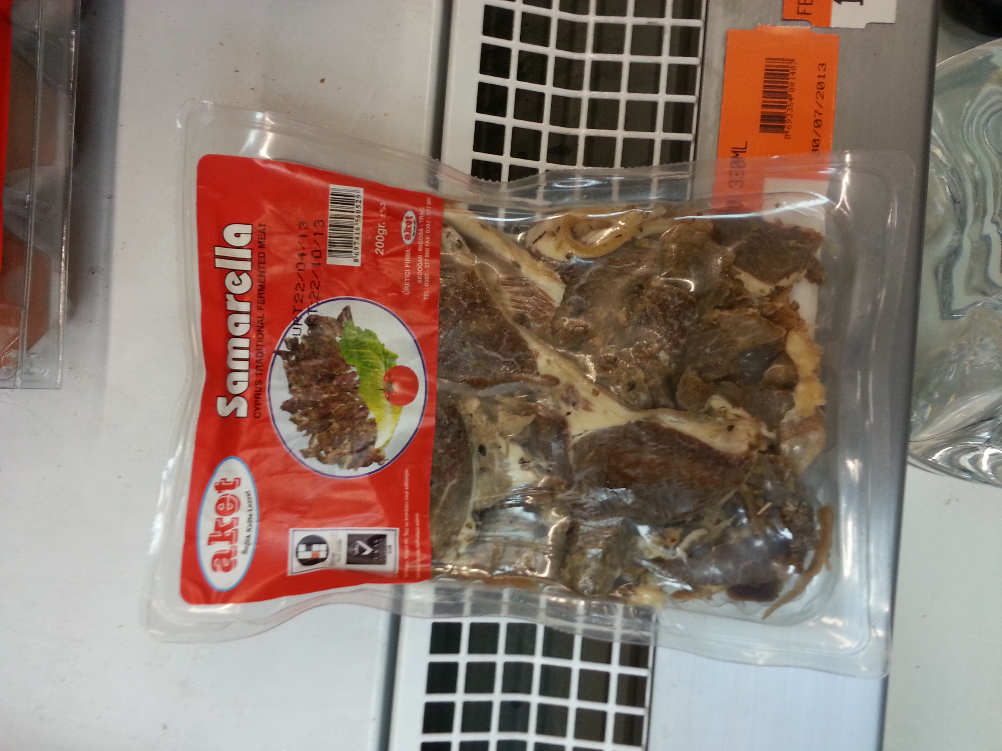 Samarella, a Cypriot meze made from dried meat